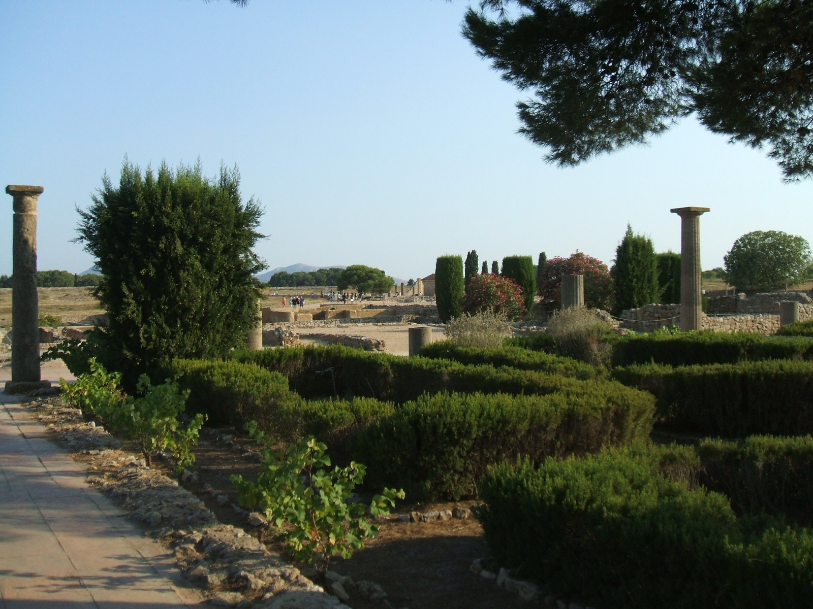 Empuries Archaeological Site (Catalunya, Spain) : Roman Town ; Domus 1 : view towards the Forum.